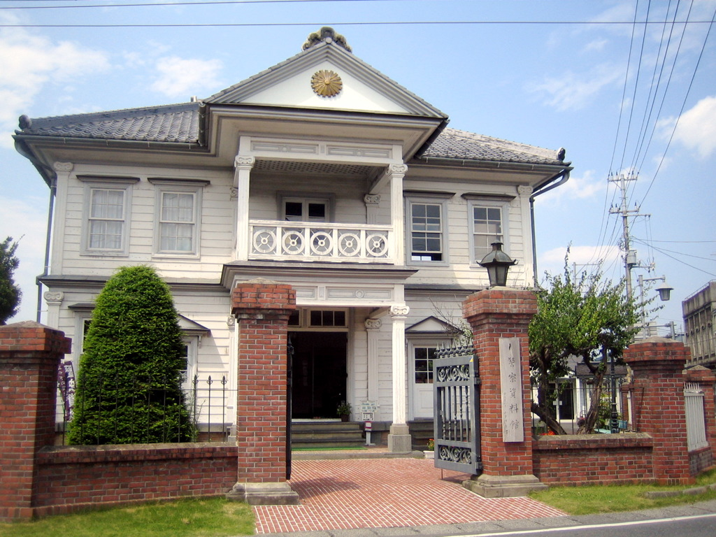 Police museum at Tome city (Former Tome police station).